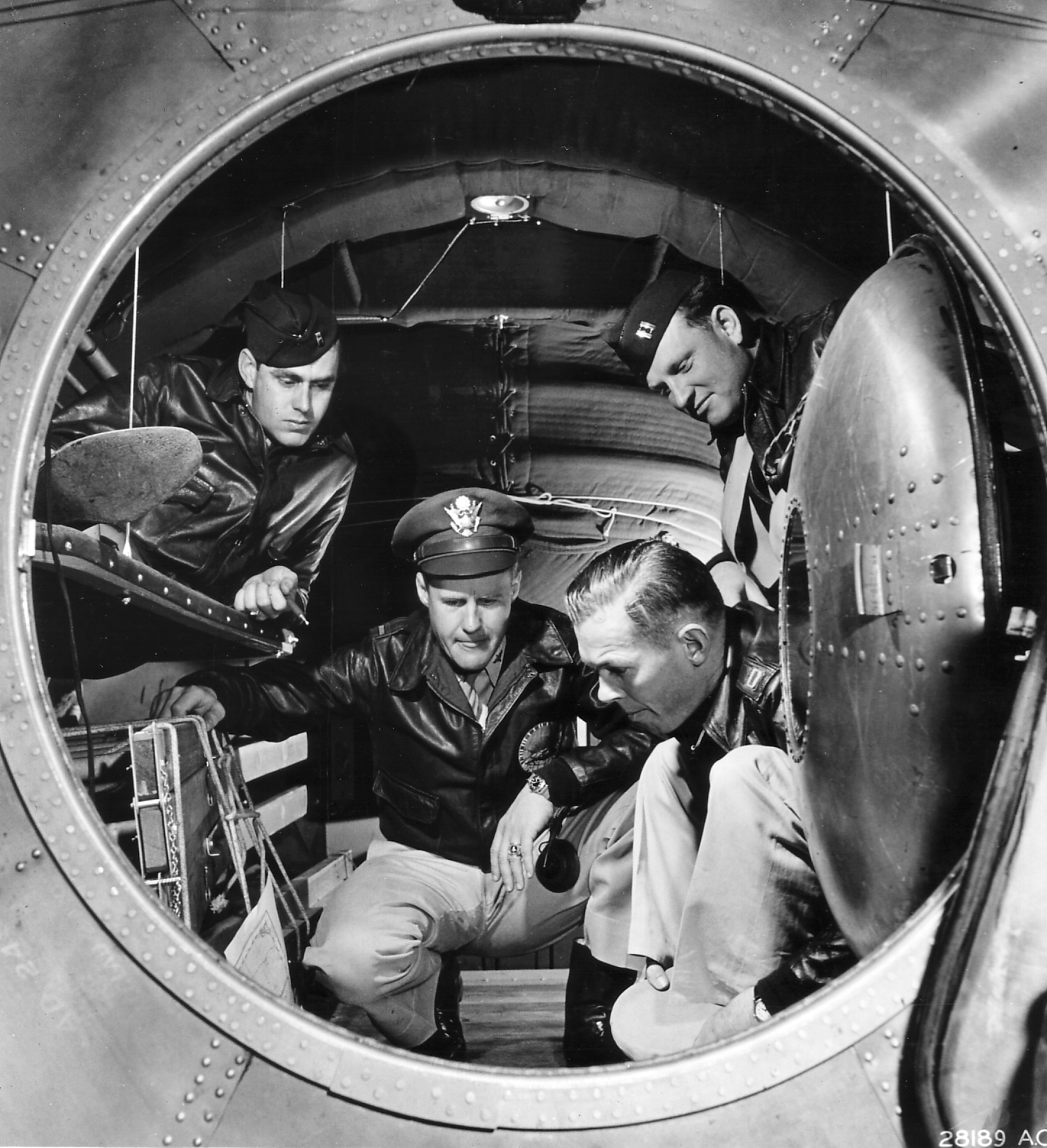 Summary Interior photo of the B-29 Superfortress bomber. June 1944 Shown is the rear pressurized cabin, equipped with four bunks to give crew members a chance for rest on a long mission. This is an important factor in combating flight fatigue. The B-29 was first reported in action on June 5, 1944, in an attack on railway yards at Bangkok, Siam, and on June 15 the first raid was made in Japan from bases in China. Following that date, attacks on the Japanese mainland were steadily stepped up, mainly from bases in the Marianas and in Guam, with forces up to 450 and 500 Superfortresses. (U.S. Air Force photo)[1]